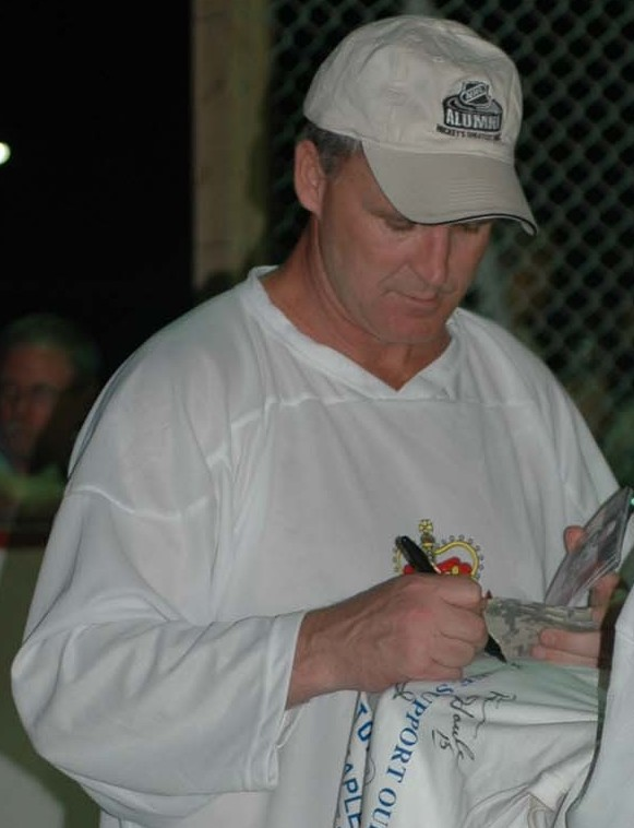 20070504-A-5475B-0293 - Toronto Maple Leafs National Hockey League alumni Kevin Maguire and Lou Franceschetti sign a jersey following the third ball hockey game against the Kandahar Air Field 'all star team' composed primarily of U.S. and Canadian service members that was held as part of the NHL Lord Stanley's Cup first visit to a combat zone. Photo by: Capt. Vanessa R. Bowman, 22nd Mobile Public Affairs Detachment.